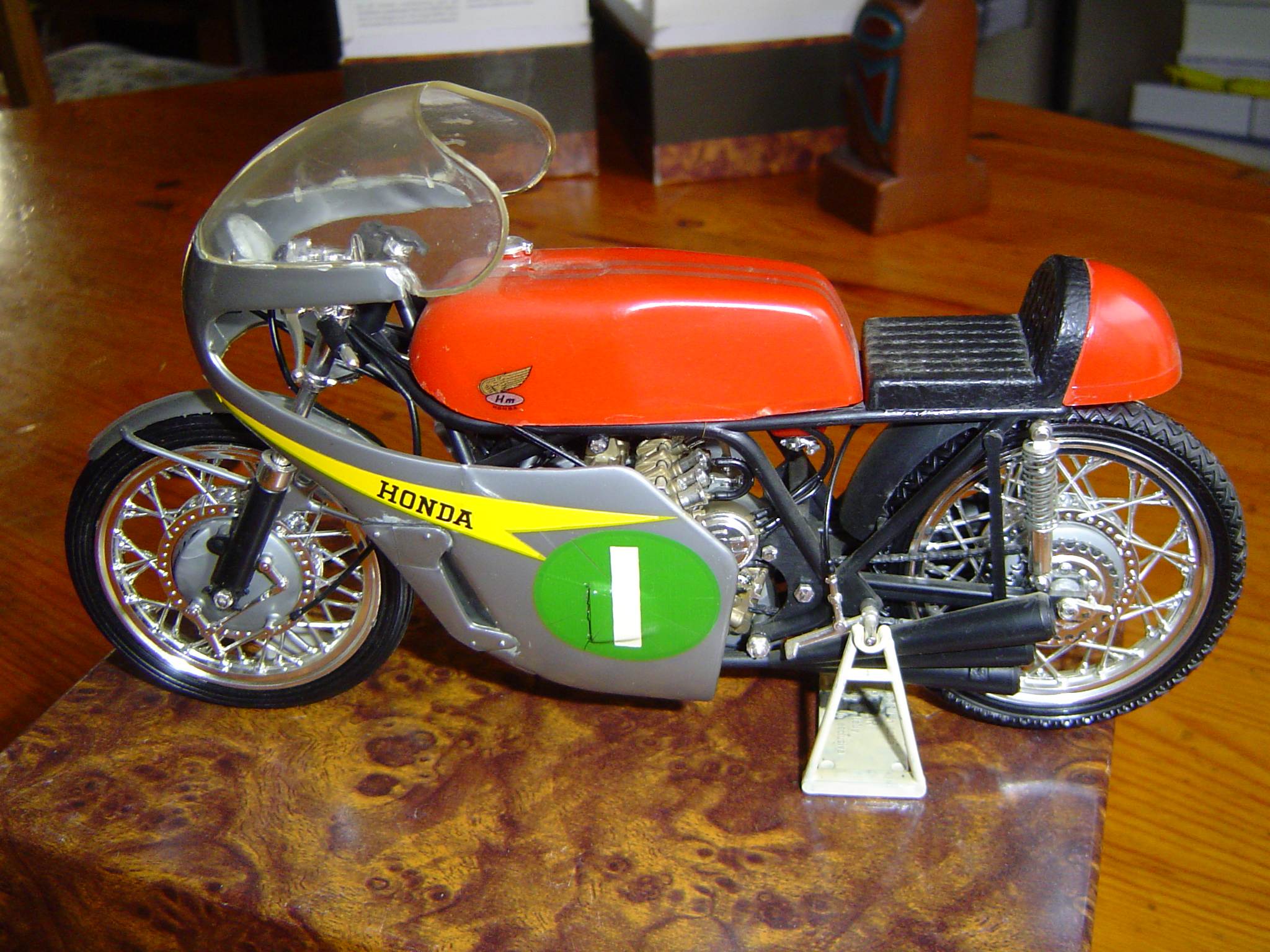 Model of a Honda RC165 racing motorcycle.